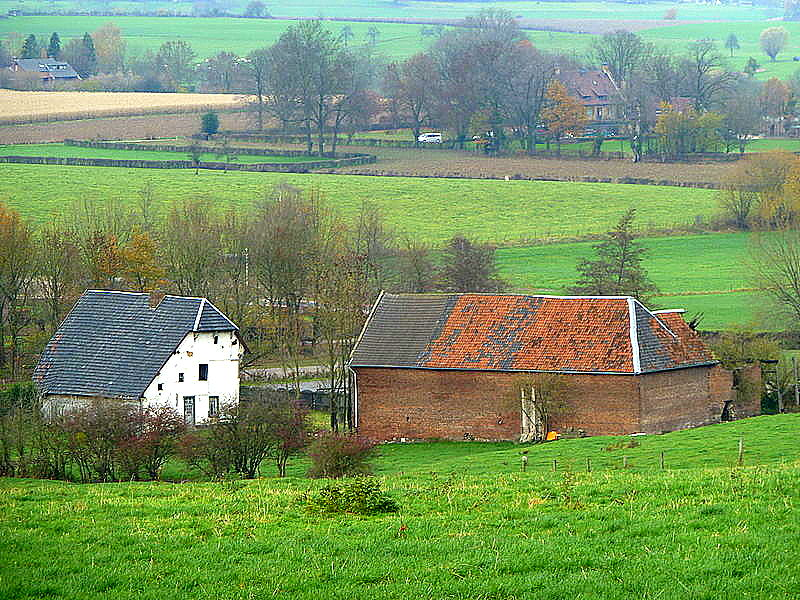 Camerig 22, Vaals, Limburg, the Netherlands